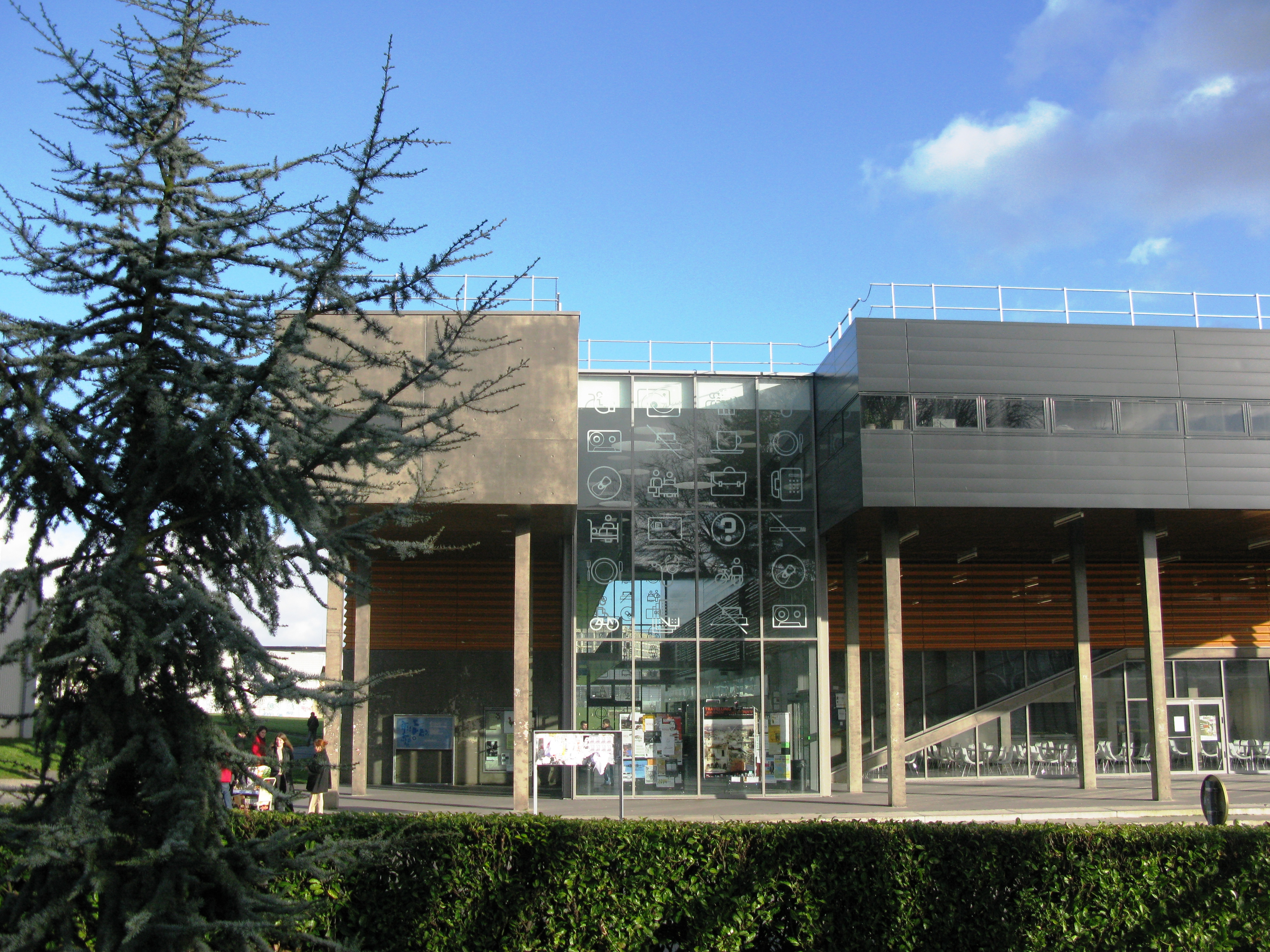 EREVE builduing in the University of Rennes2, France. It houses students circles, unions, restaurants, as well as banking facilities.